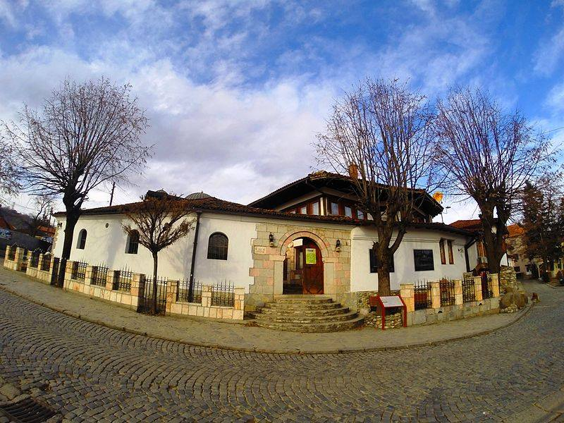 Tekke of Shejh Emin — near the Old Gjakova Bazaar, in Đakovica (Gjakova), Kosovo.